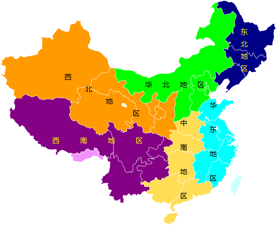 regions of China